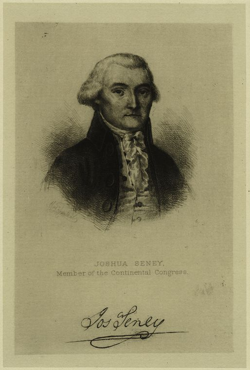 Joshua Seney, US Representative from Maryland